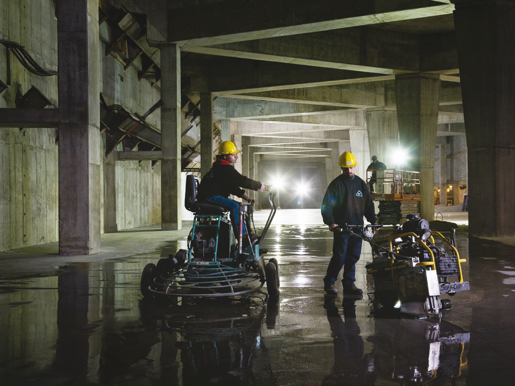 Montréal-Trudeau train station located under the new Marriott hotel at Montréal-Pierre Elliott Trudeau International Airport